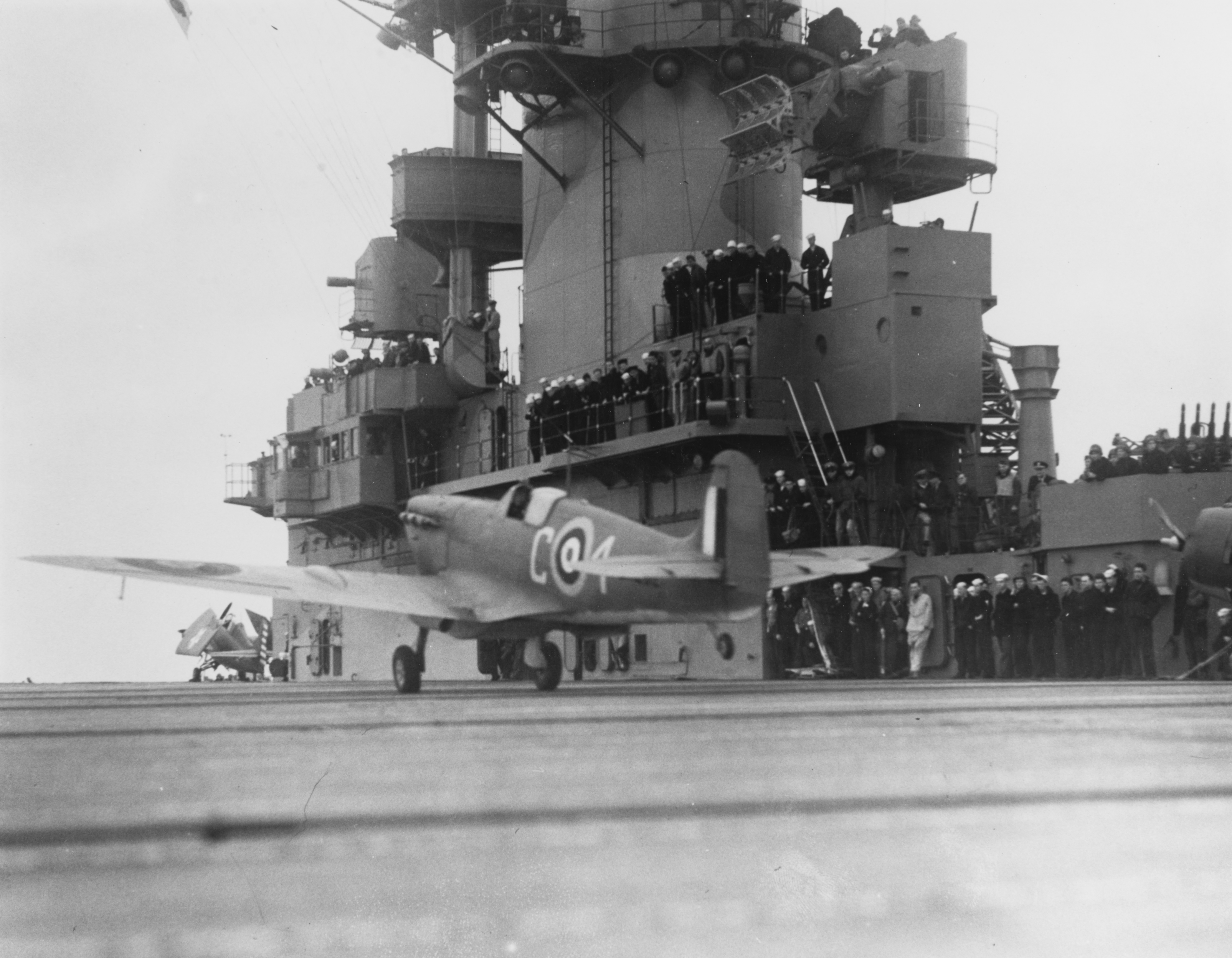 USS Wasp (CV-7). British Royal Air Force Spitfire V fighter takes off from the carrier, after a 200-foot run, May 1942. Probably taken during Wasp's second Malta aircraft ferry mission.